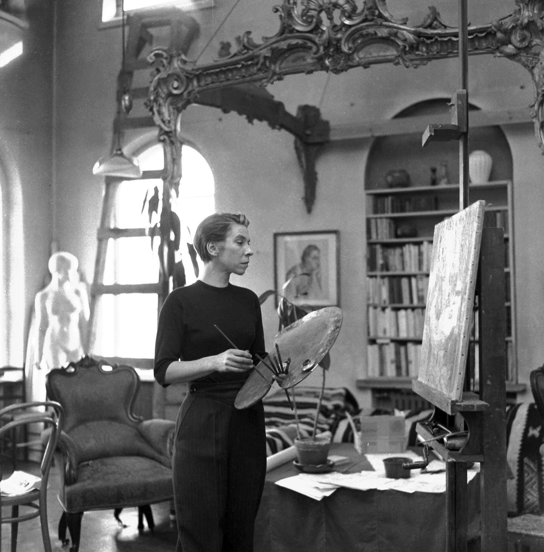 Photograph of the Finnish writer and illustrator Tove Jansson (1914–2001) at her home.